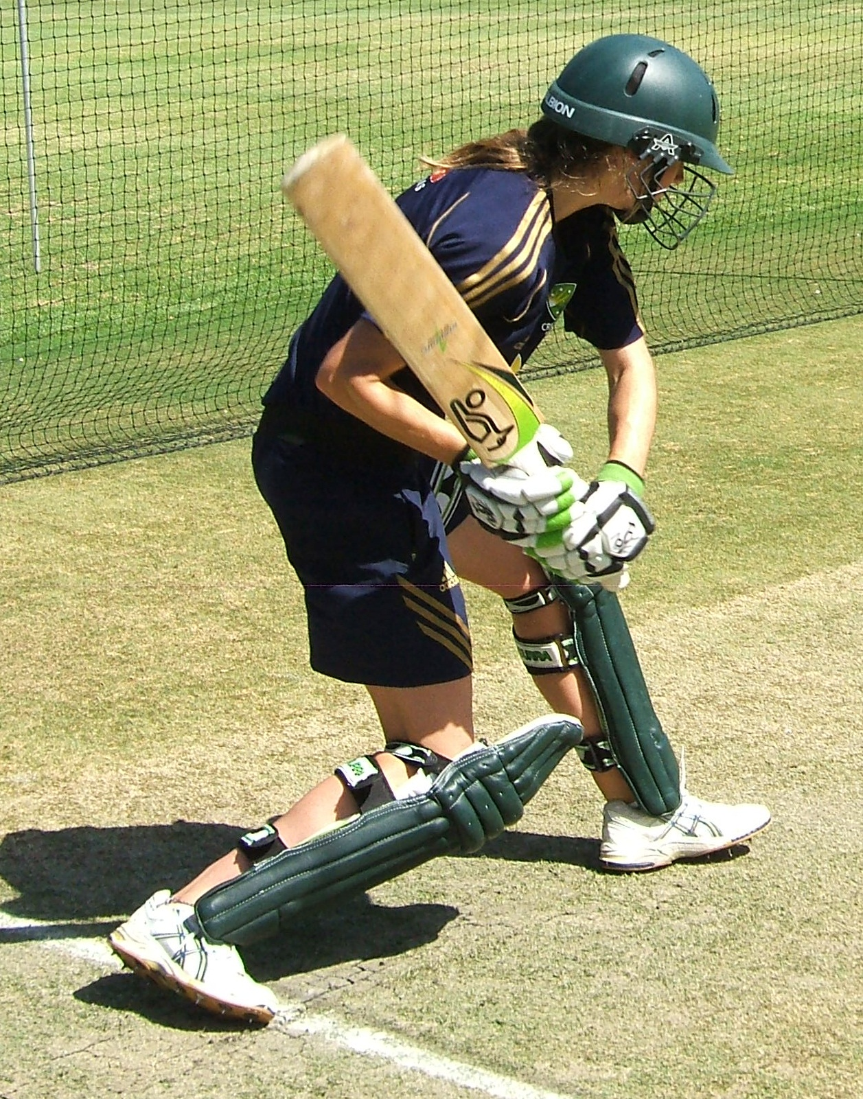 Named person engaging in named action at Adelaide Oval nets/training ground